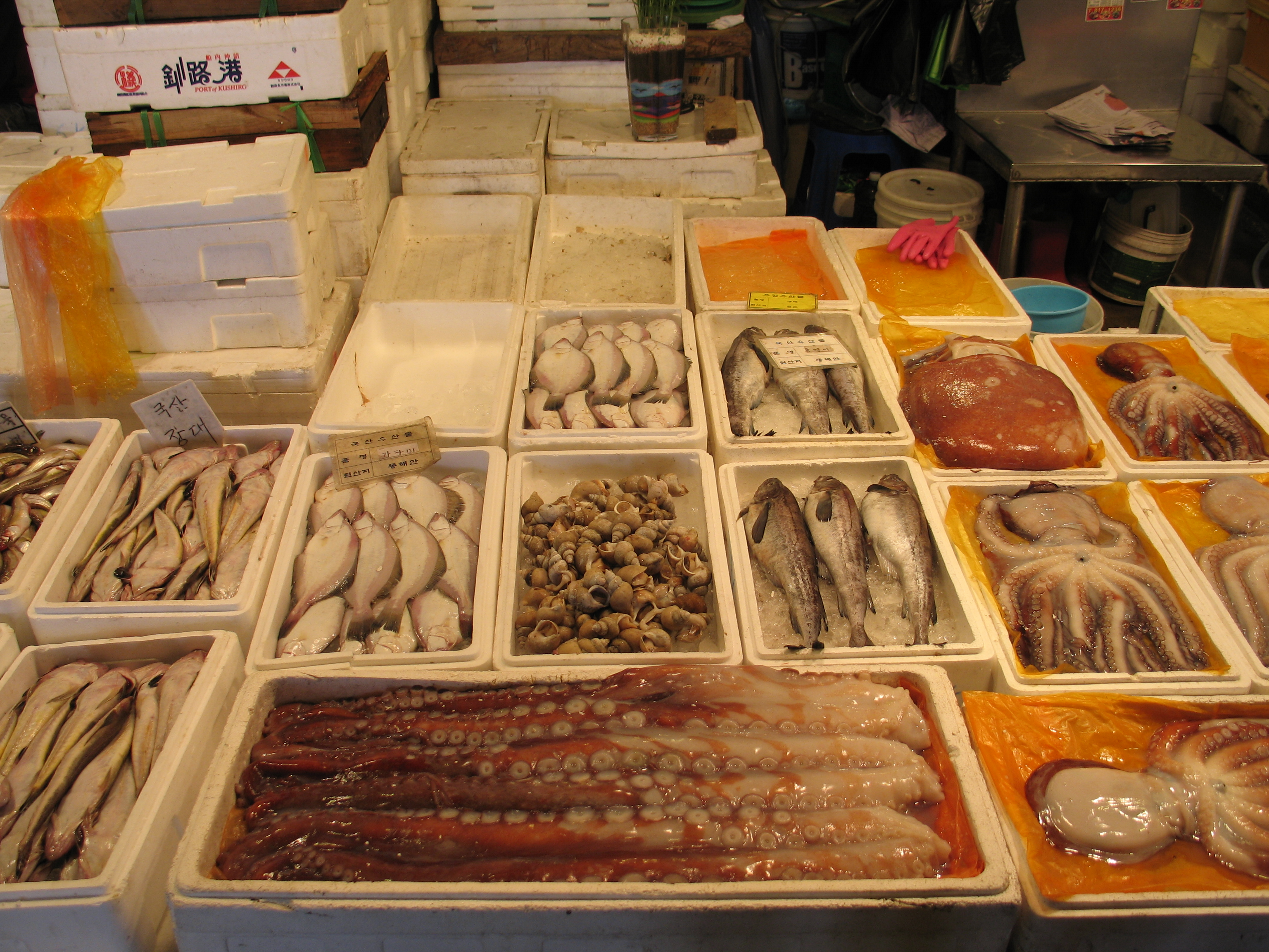 Noryangjin Fish Market located in Dongjak-gu, Seoul, South Korea